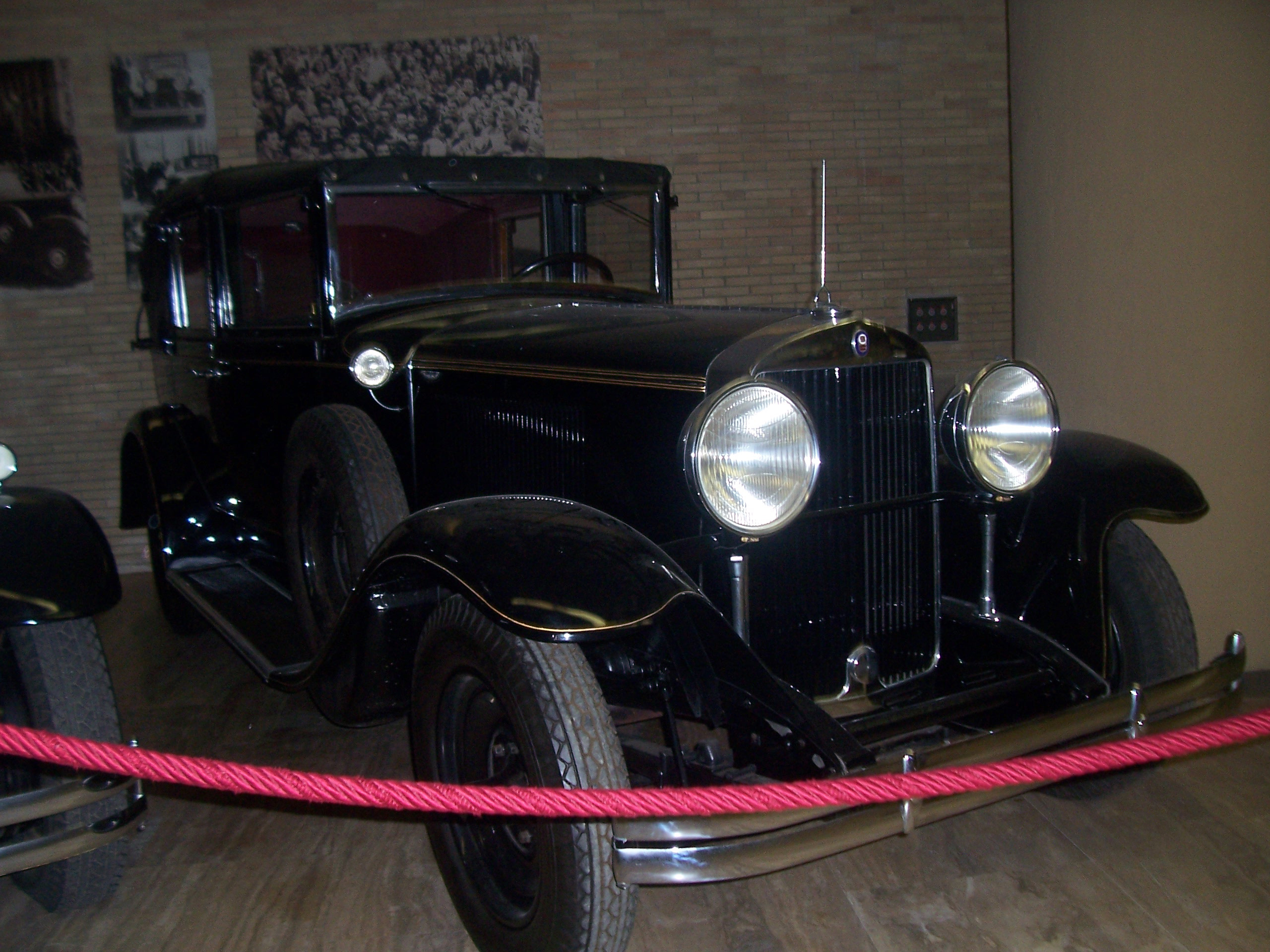 Pope Pius XI's Graham Page 837.